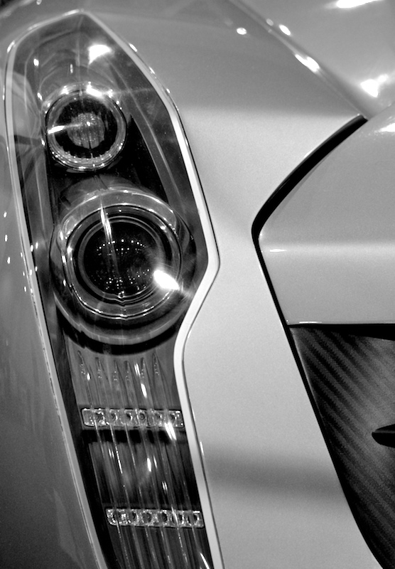 The Ecojet is a one-of-a-kind concept built by GM and Jay Leno's private garage. I was pretty surprised to see it at CES, but the audio company displaying it (who did the interior LCD screens and such) was really nice in letting me photograph it extensively.